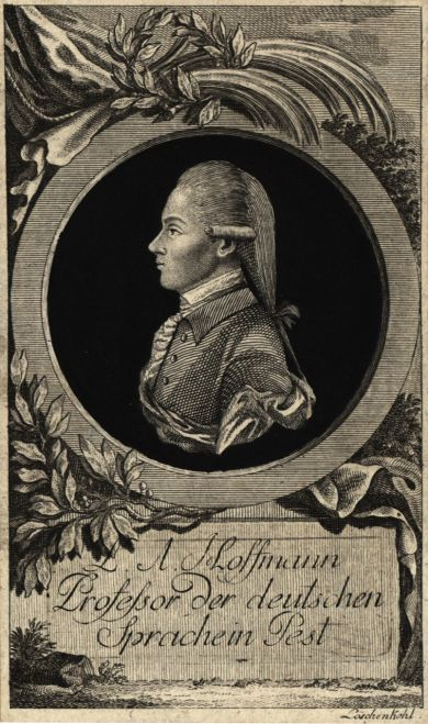 Portrait of Leopold Alois Hoffmann (1760–1806)